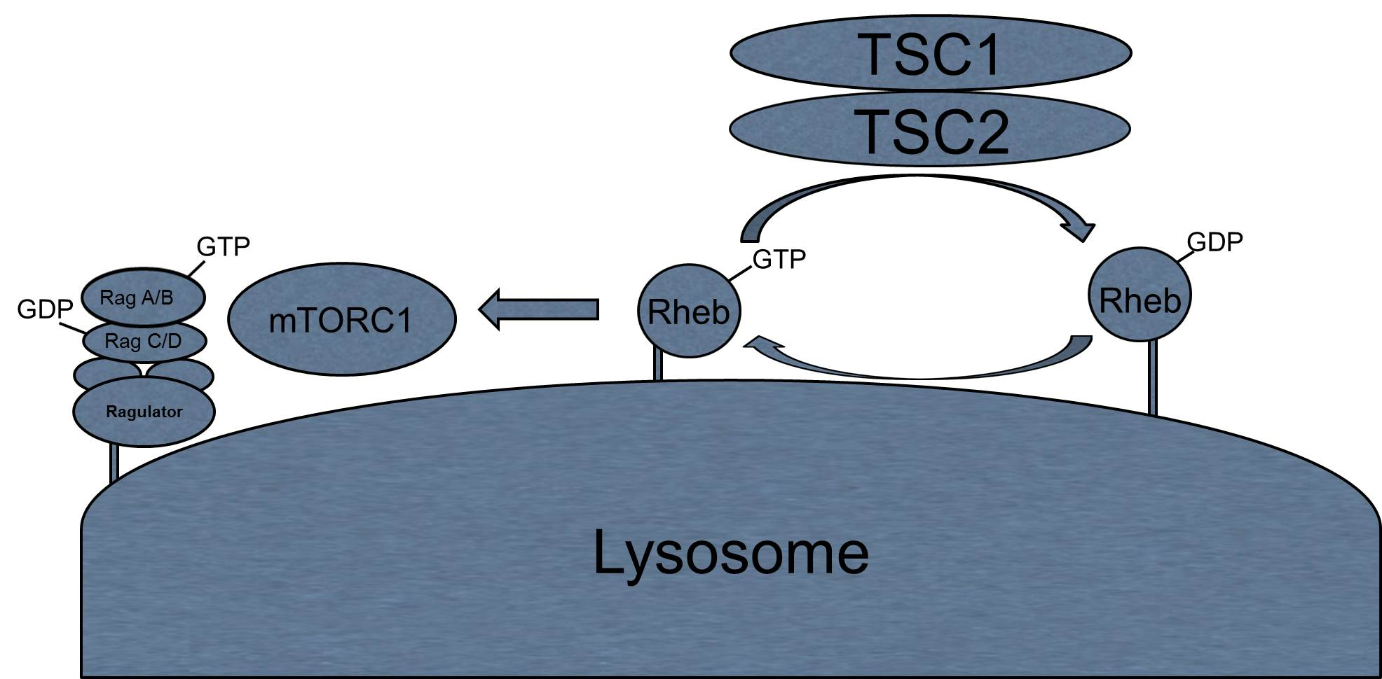 A picture showing how mTORC1 gets activated at the lysosome.